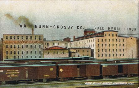 Washburn Crosby Company postcard from around 1900.